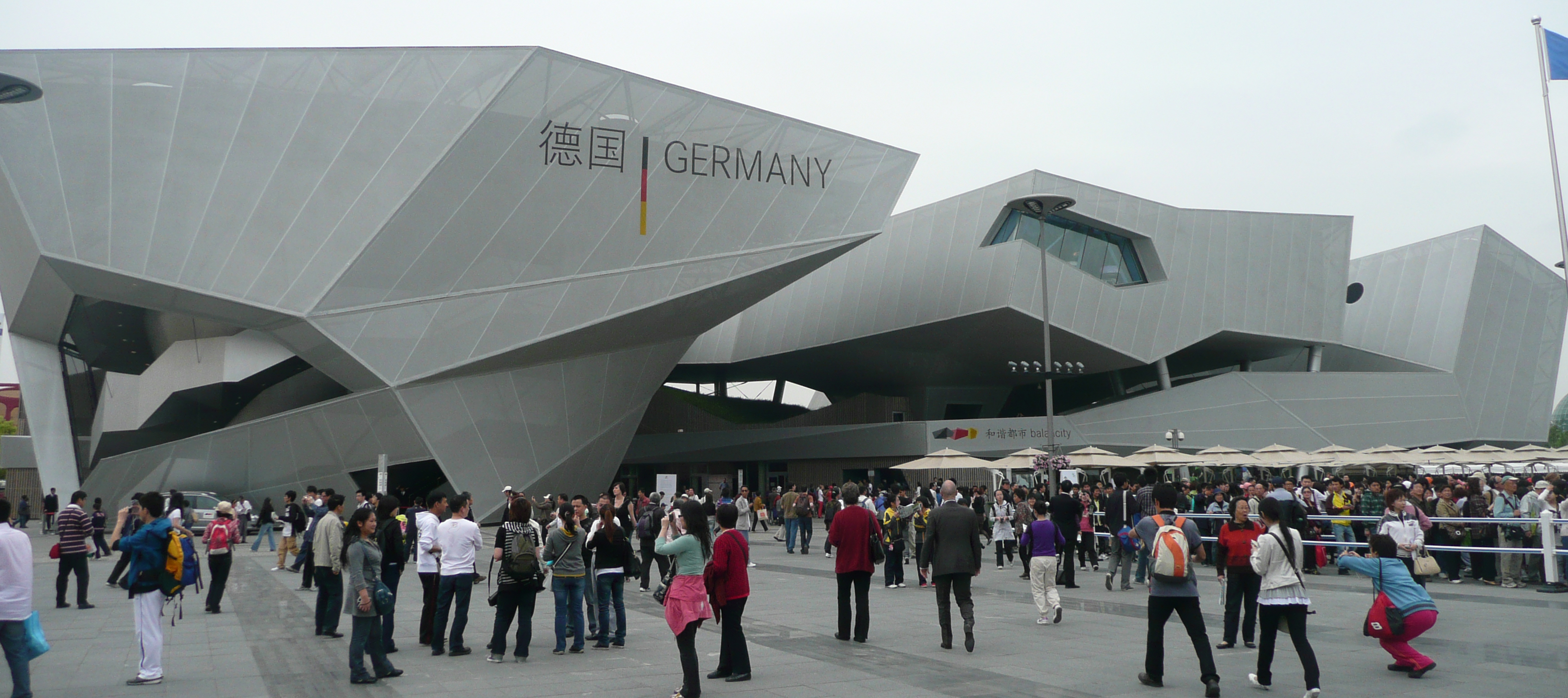 Balancity - German Pavilion at Expo 2010 in Shanghai